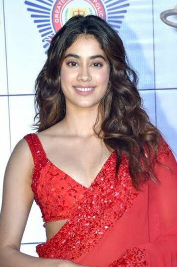 Janhvi Kapoor at an event for Umang 2020